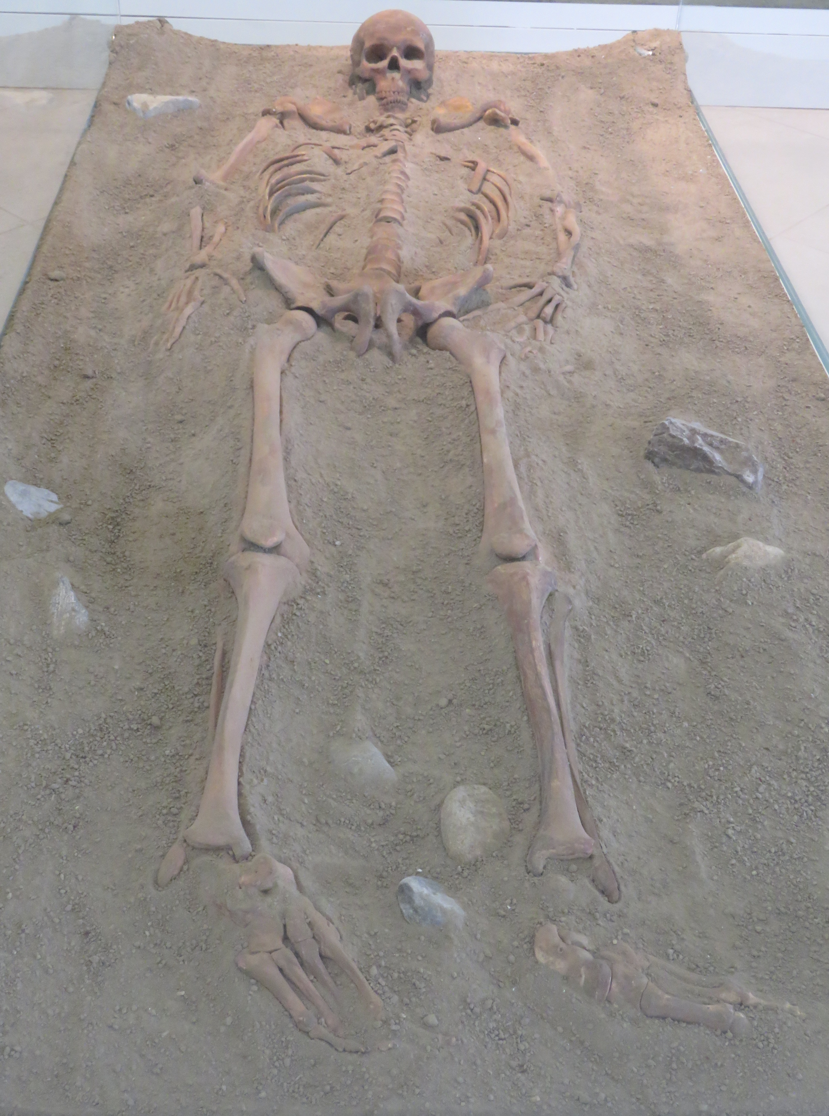 Museum Lepenski Vir, skeleton